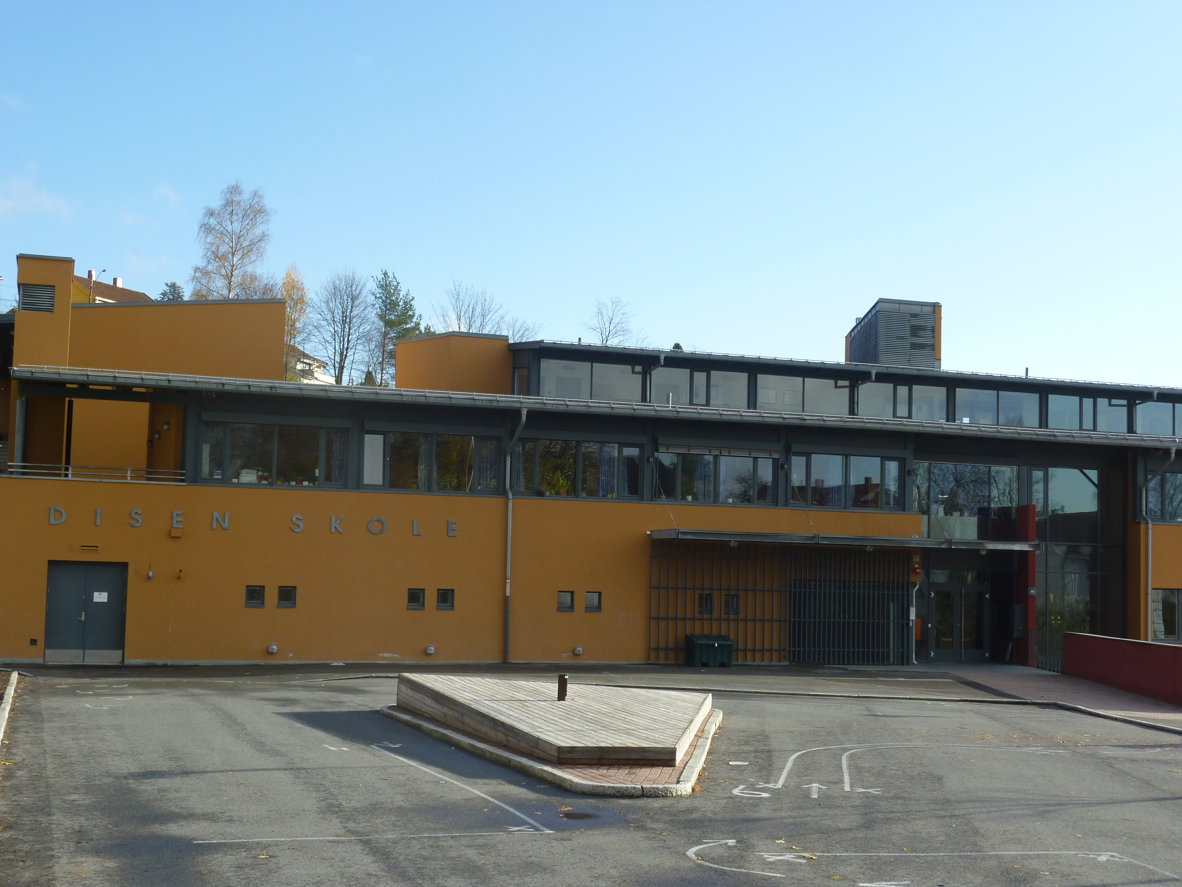 Disen elementary school, Oslo